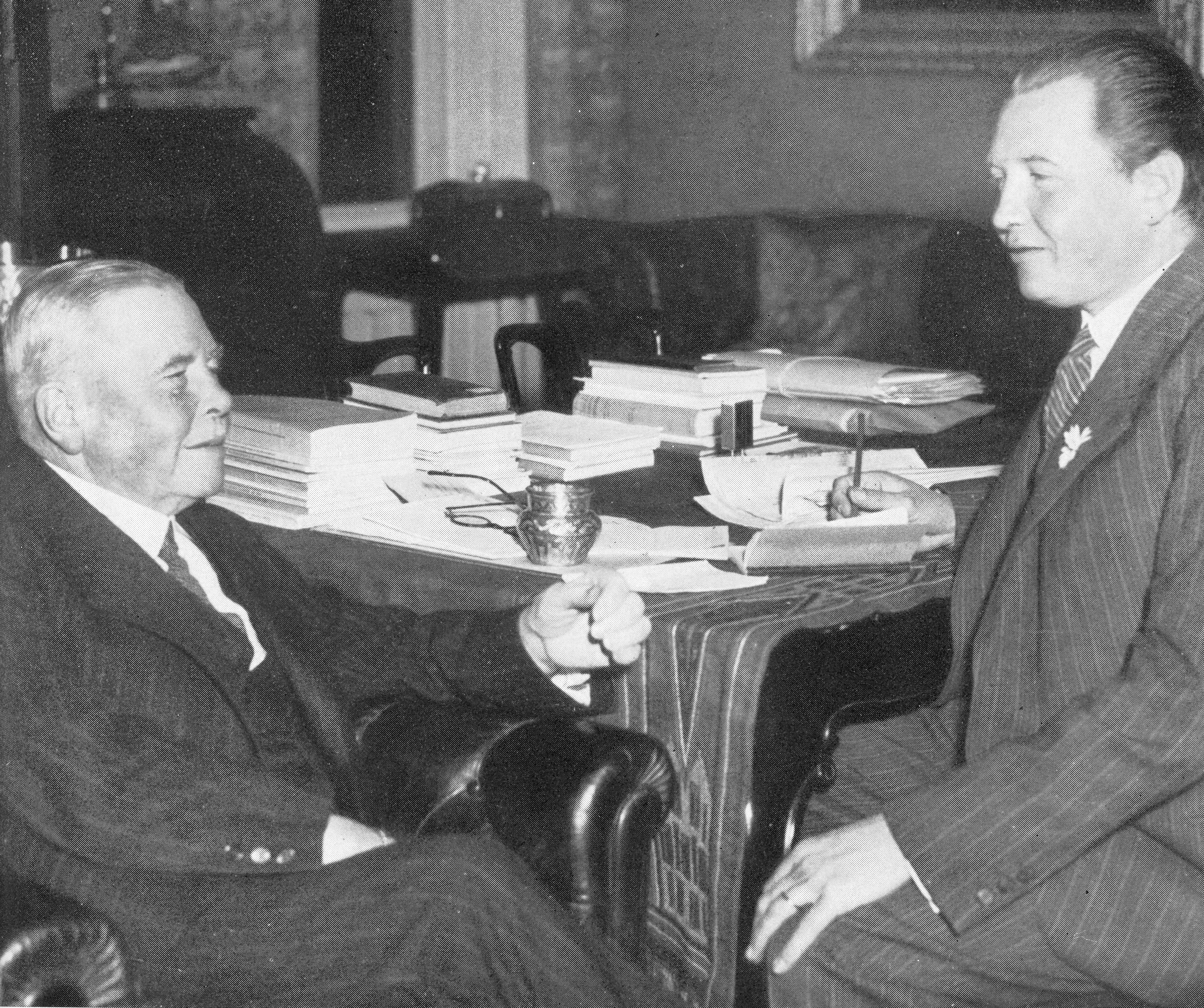 Admiral Arvid Lindman, leader of the Swedish Party of the Right, is interviewd by Svenska Dagbladet's Alf Grandien.